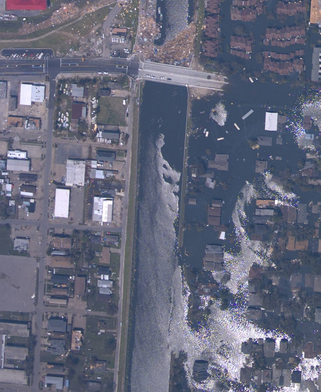 Breach in 17th Street Canal wall in New Orleans, Louisiana. A part of the West End neighborhood of New Orleans is to the right on the east side of the canal, severely flooded; to the left, west of the Canal, is part of Metairie, Louisiana, not flooded. NOAA aerial image taken August 31, 2005. Metal girders and/or plates were later hung along the north side of the Hammond Highway bridge (gray bridge at top, with debris in canal on the north/Lake Pontchartrain side) to block the entrance to the canal. The breach in the canal berm and canal wall (lower right) were closed with helicopter-dropped sandbags and trucks dumping fill southward from Hammond Highway. The breach was closed Monday, September 5, 2005. An opening was then made in the metal wall to allow city drainage through the canal. Repair of the canal levee and floodwall are still ongoing as of April 2006.